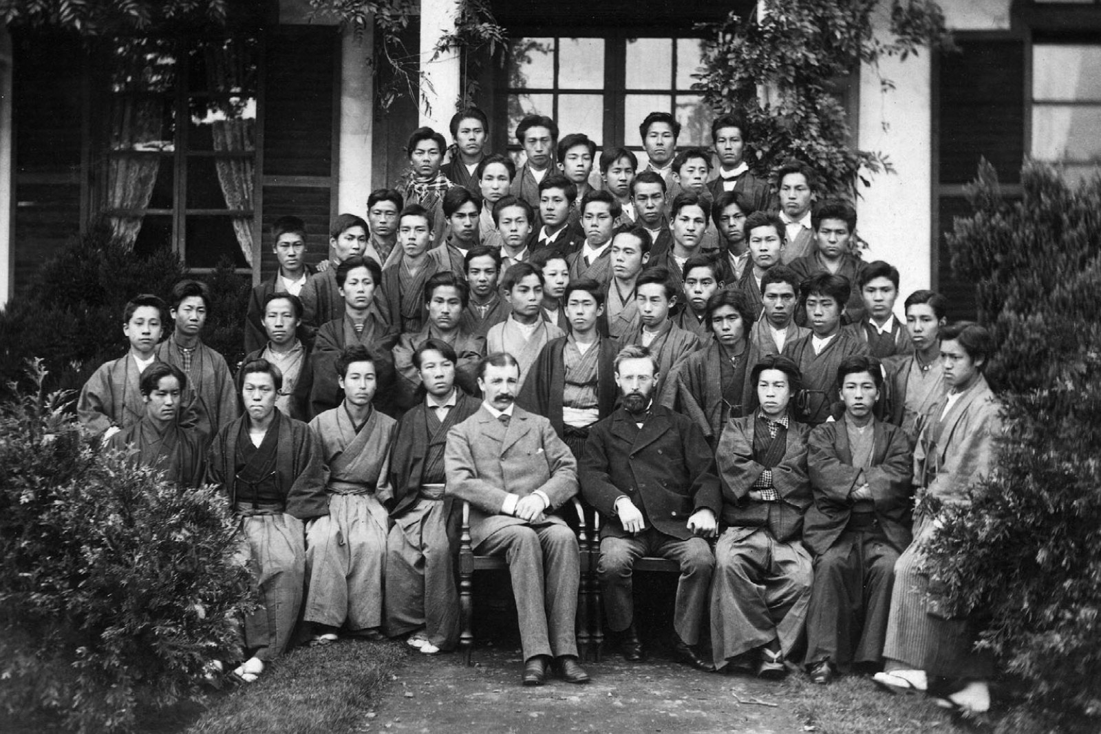 Ludwig Döderlein (front row, in black coat) with a group of students in Tokio, 1881